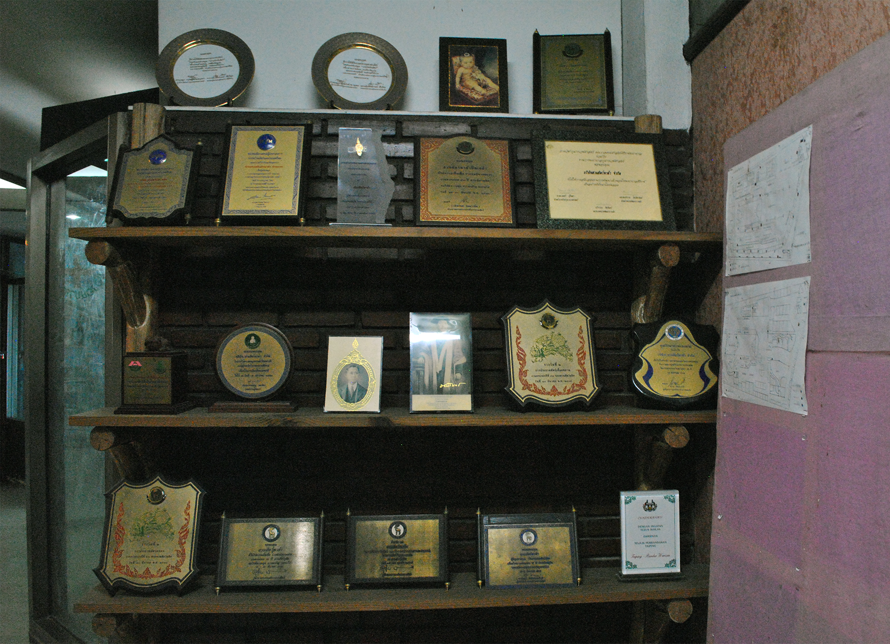 Pata Zoo's awards